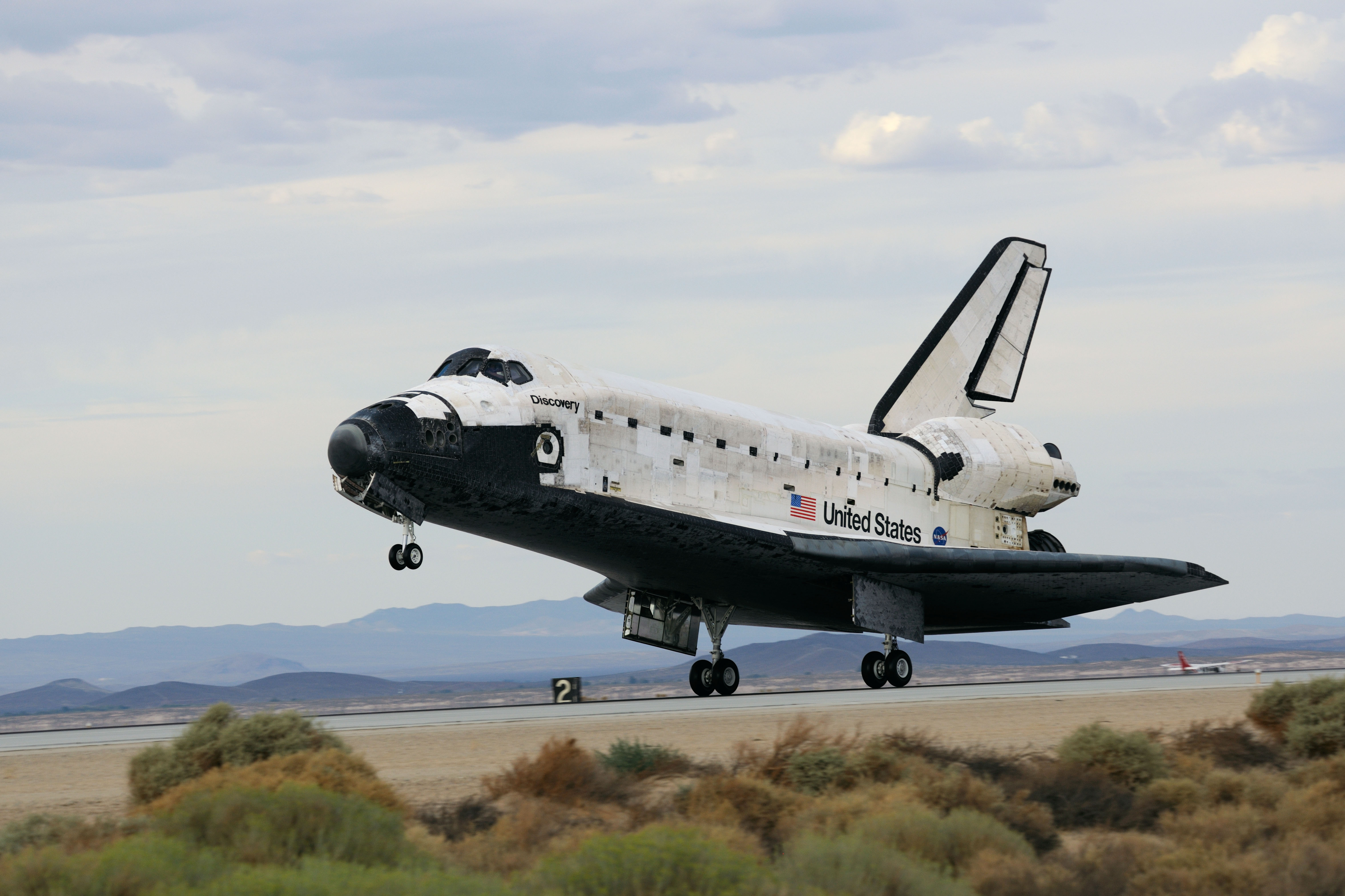 Space Shuttle Discovery rolls out on Runway 22L after landing at Edwards Air Force Base in Southern California's high desert to conclude mission STS-128 to the International Space Station.